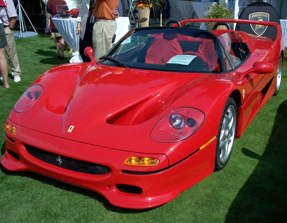 520 bhp, 12 cylinder the white paper in the dash shows the price tag at $939,000